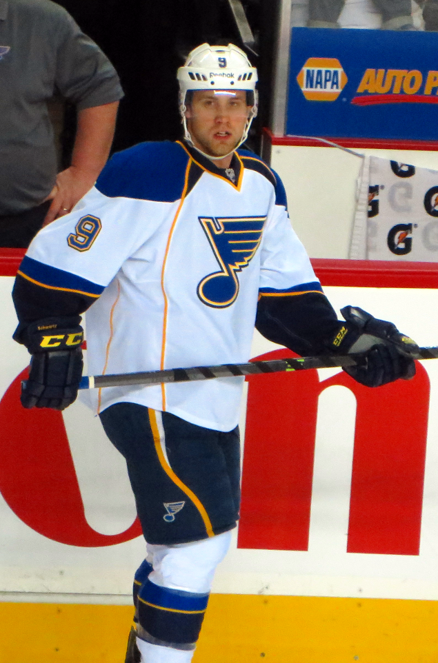 St. Louis Blues forward Jaden Schwartz prior to a national Hockey League game in Calgary.